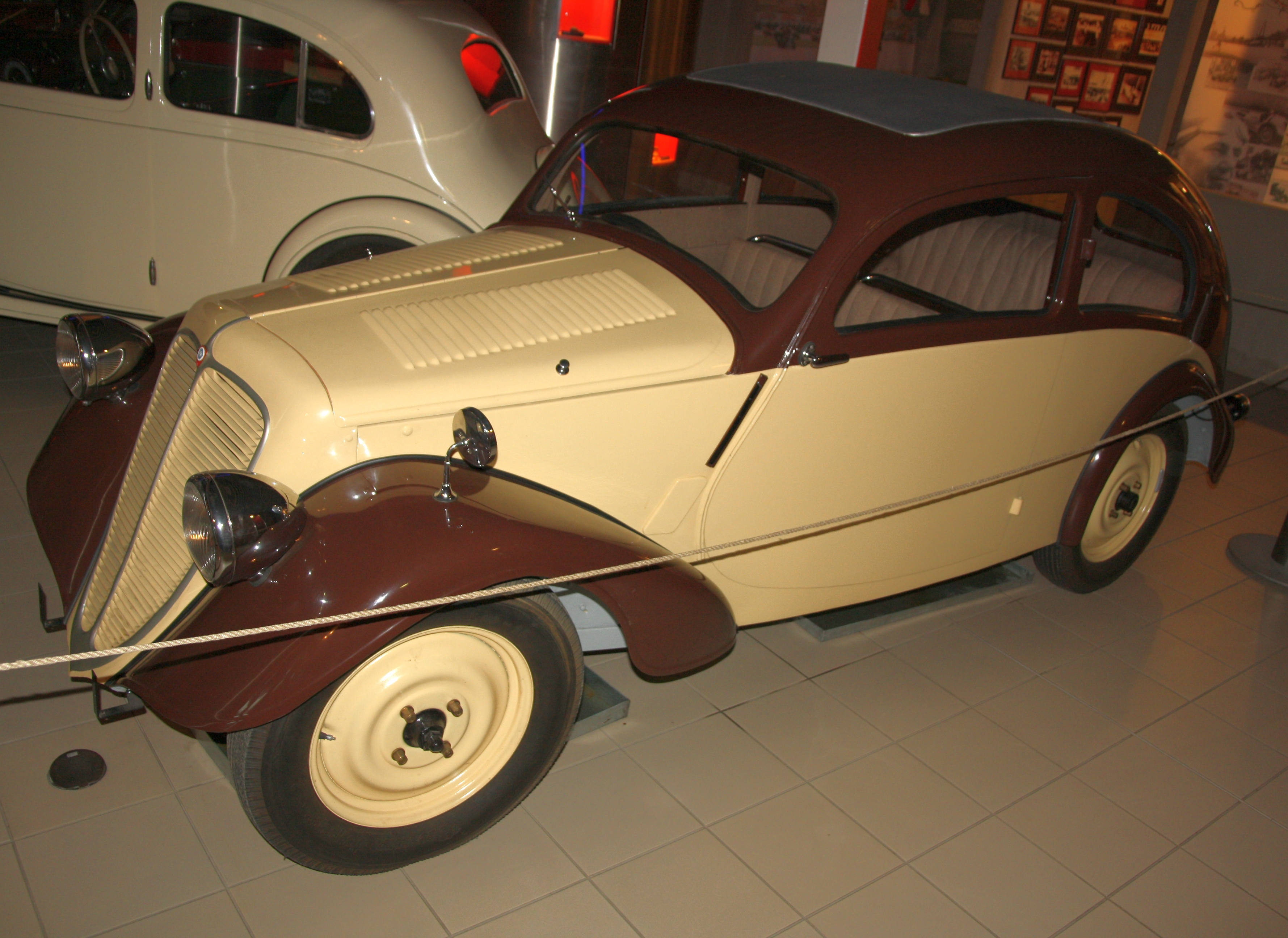 Zbrojovka Z6 Hurvínek from 1935. Technical museum Brno.